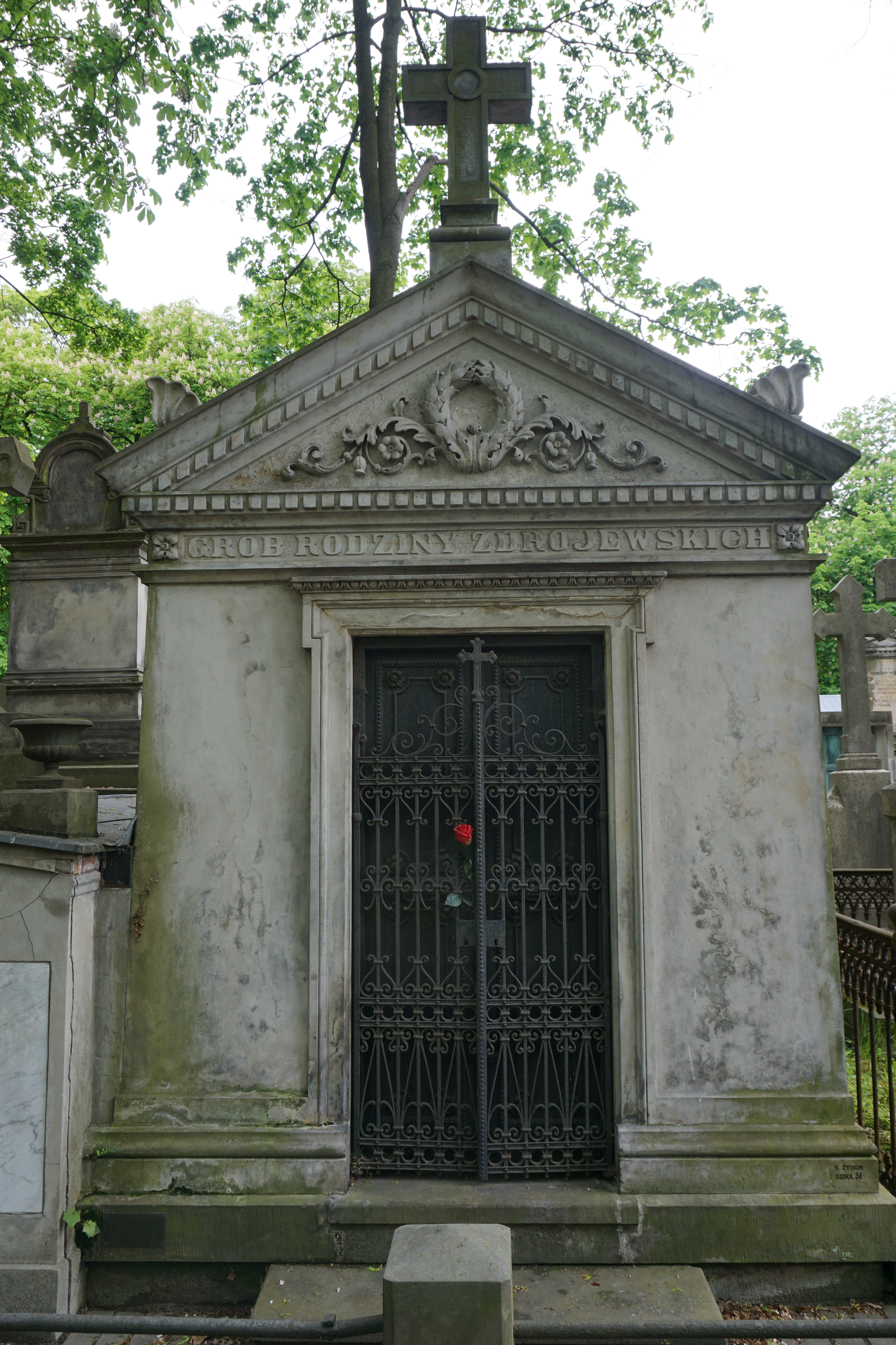 The grave of Kazimierz Kamprad at the Powązki Cemetery (section 19, row 5, grave 10, 11)